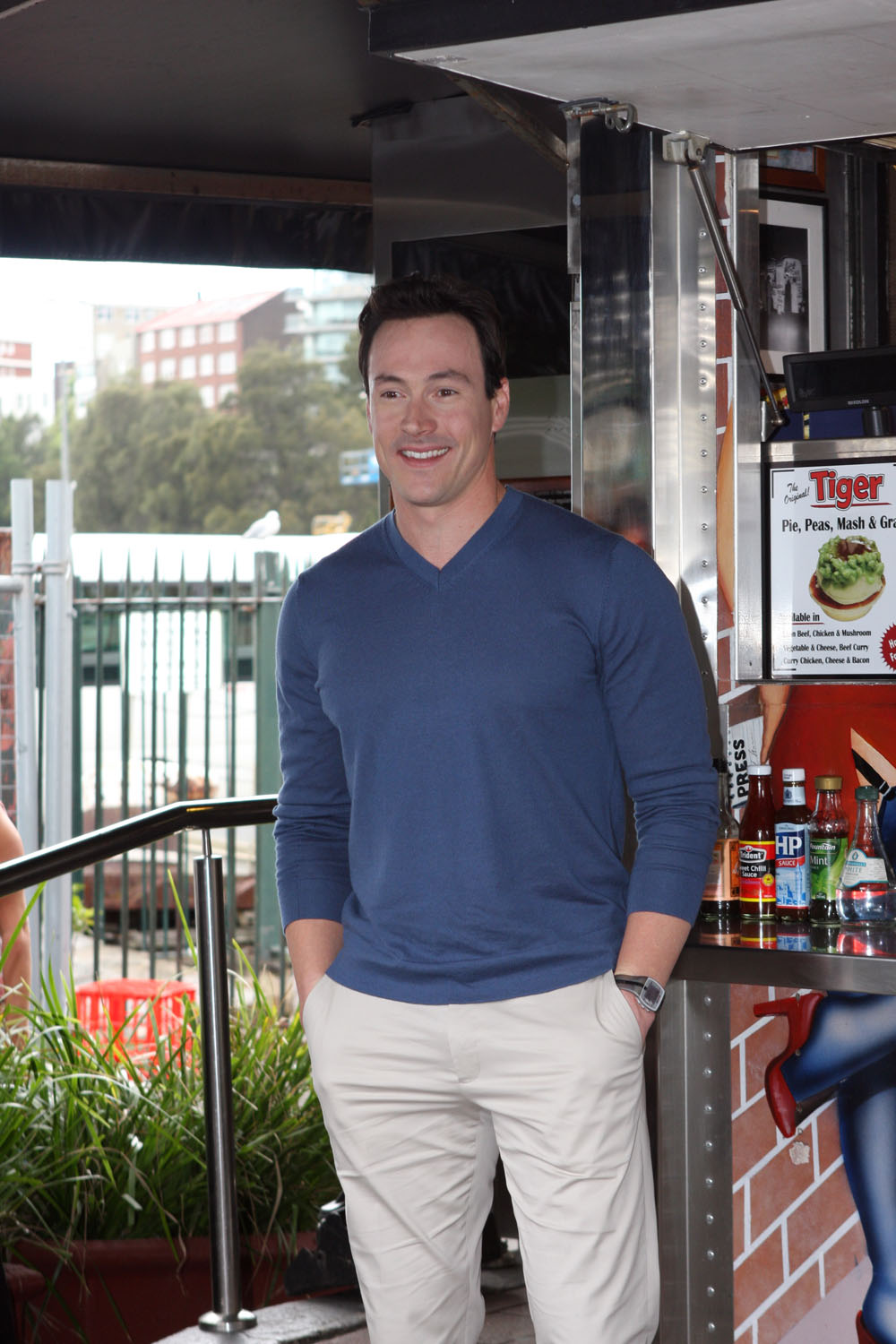 American Pie Reunion, Harry's Cafe de Wheels Sydney, Woolloomooloo Photography Eva Rinaldi